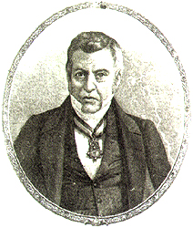 José Manuel de la Peña y Peña, President of Mexico